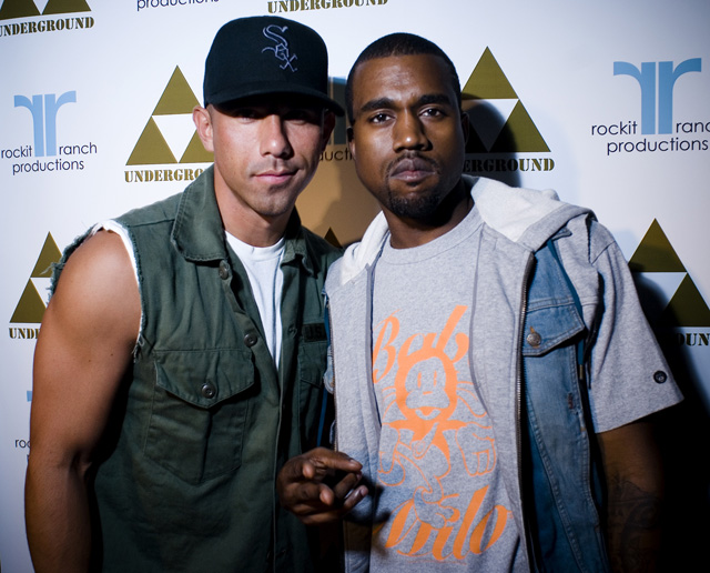 Kanye and Billy Rocked it out around 2 AM when Kanye got on the mic. In the room were fellow hip hop artists Lupe Fiasco, R Kelly, and Really Doe.